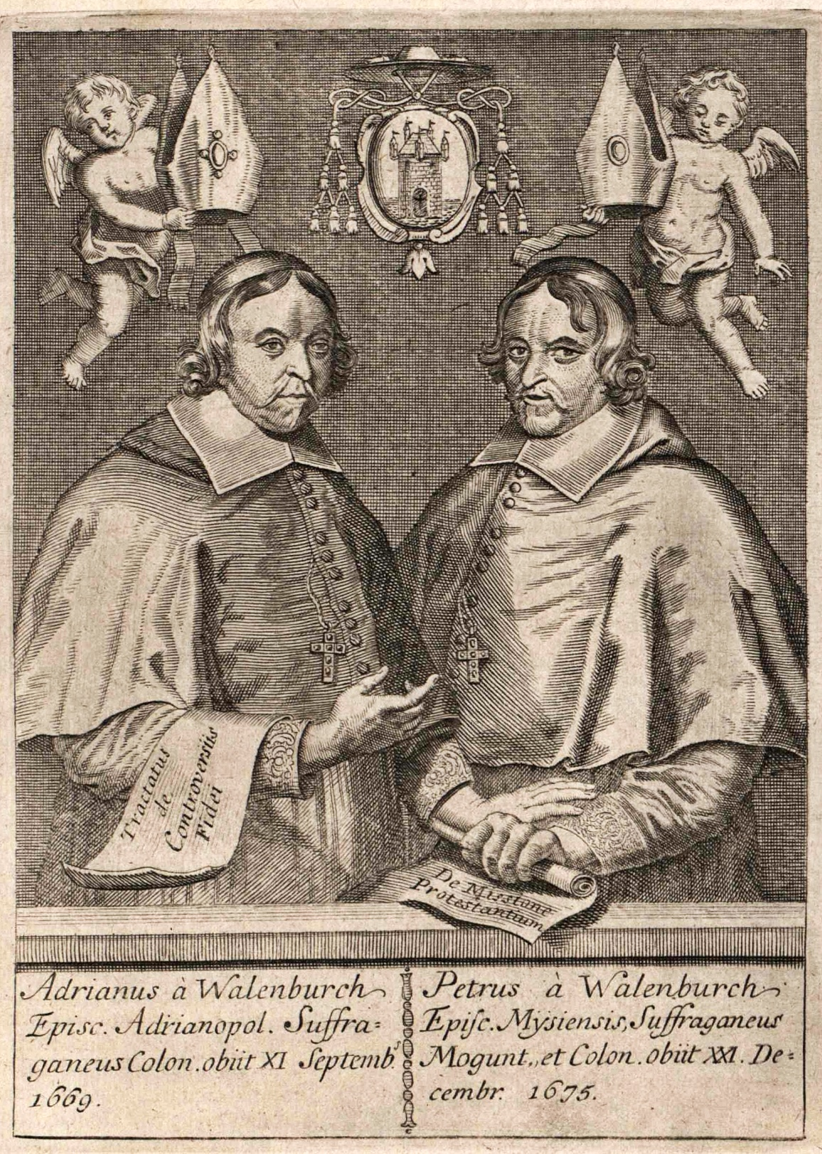 Brüder Adrian van Walenburch (1609–1669), links und Peter van Walenburch (1610-1675) rechts, Weihbischöfe von Köln und Mainz